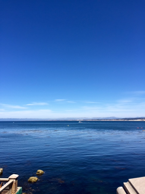 Monterey Plaza Hotel View from Cannery Row